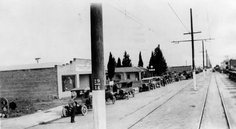 Sherman Way in downtown Owensmouth in 1920. • Present day downtown Canoga Park, in the western San Fernando Valley.